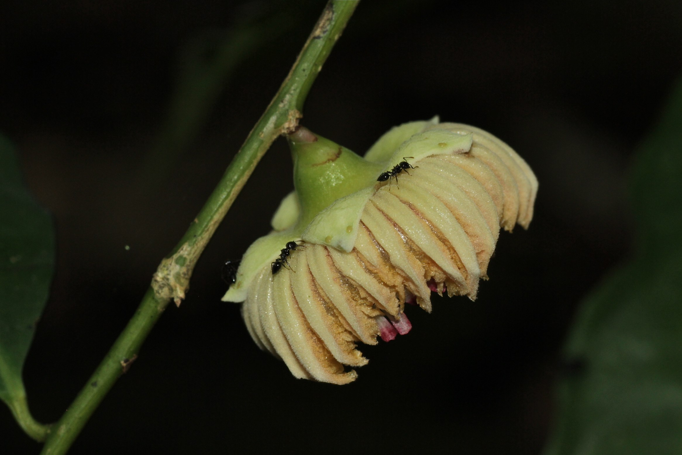 Taï National Park, Ivory Coast